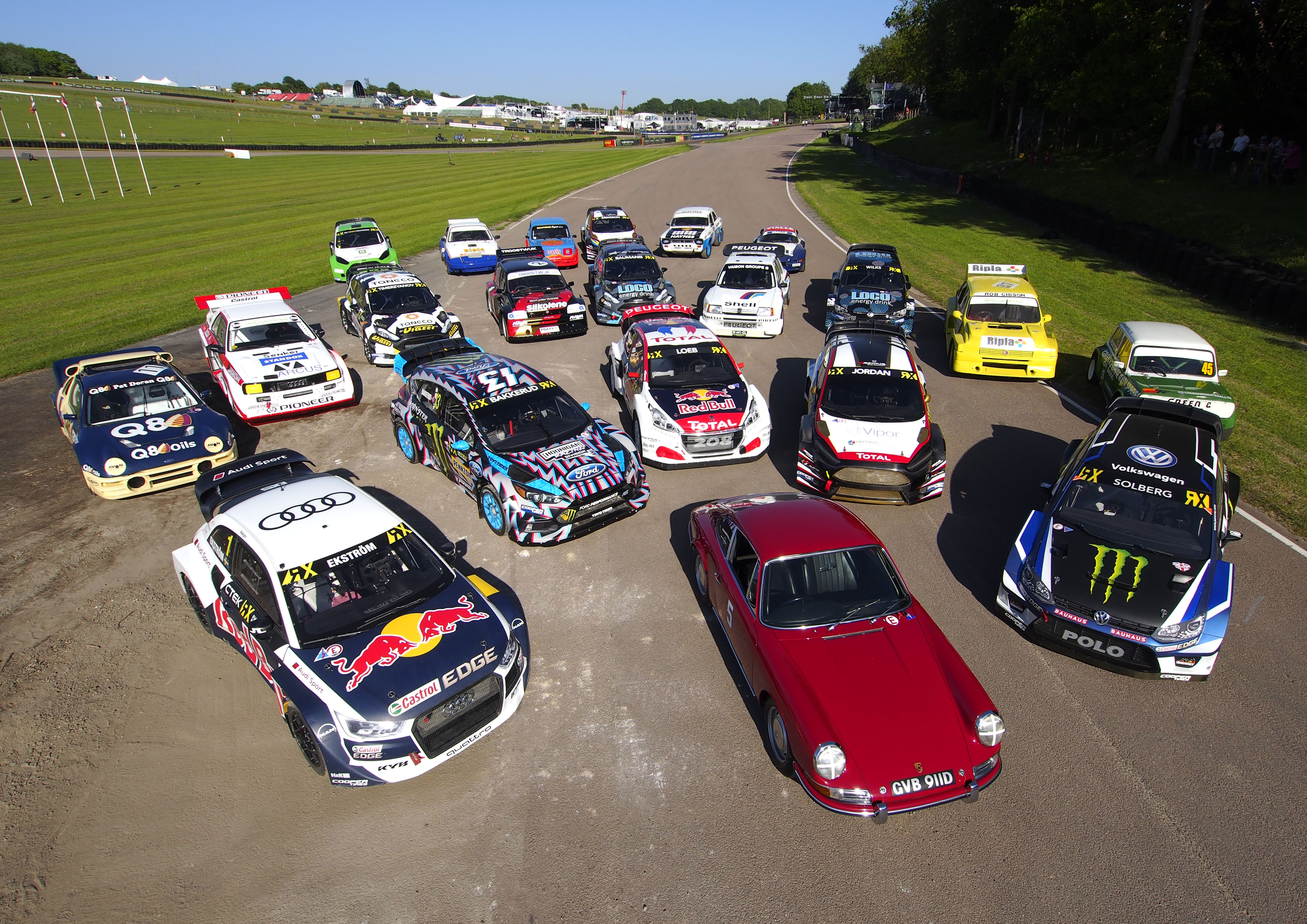 2017 FIA World Rallycross Championship // Round 05, Lydden Hill // Credit: EKS/Daniel Roeseler